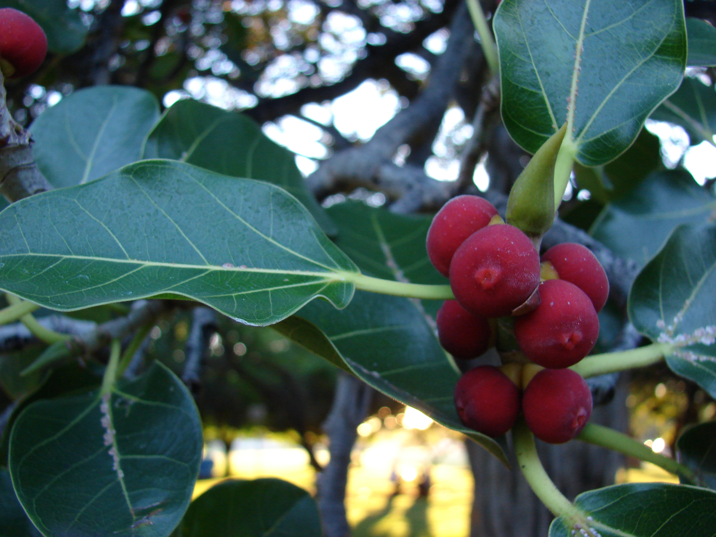 Ficus benghalensis (leaves and fruit). Location: Oahu, Ala Moana Beach Park